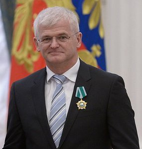 Presenting Russian Federation state decorations. Head coach of the the Russian’s national skeleton team Willi Schneider is awarded the Order of Friendship. March 24, 2014